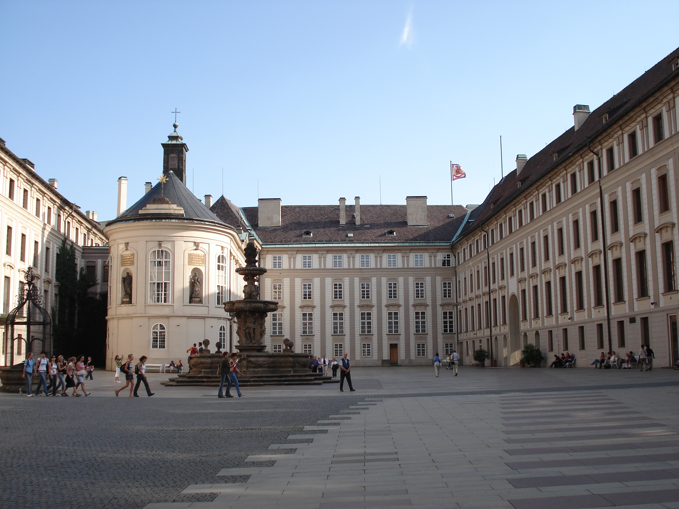 Prague Castle, second court yard, Holy-Cross Chapel